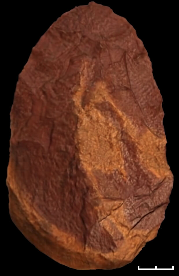 Excalibur, the unique handaxe from the Sima de los Huesos, made in quartzite, 15cm long